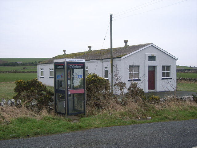 Auchenmalg Telephone Exchange & Kiosk